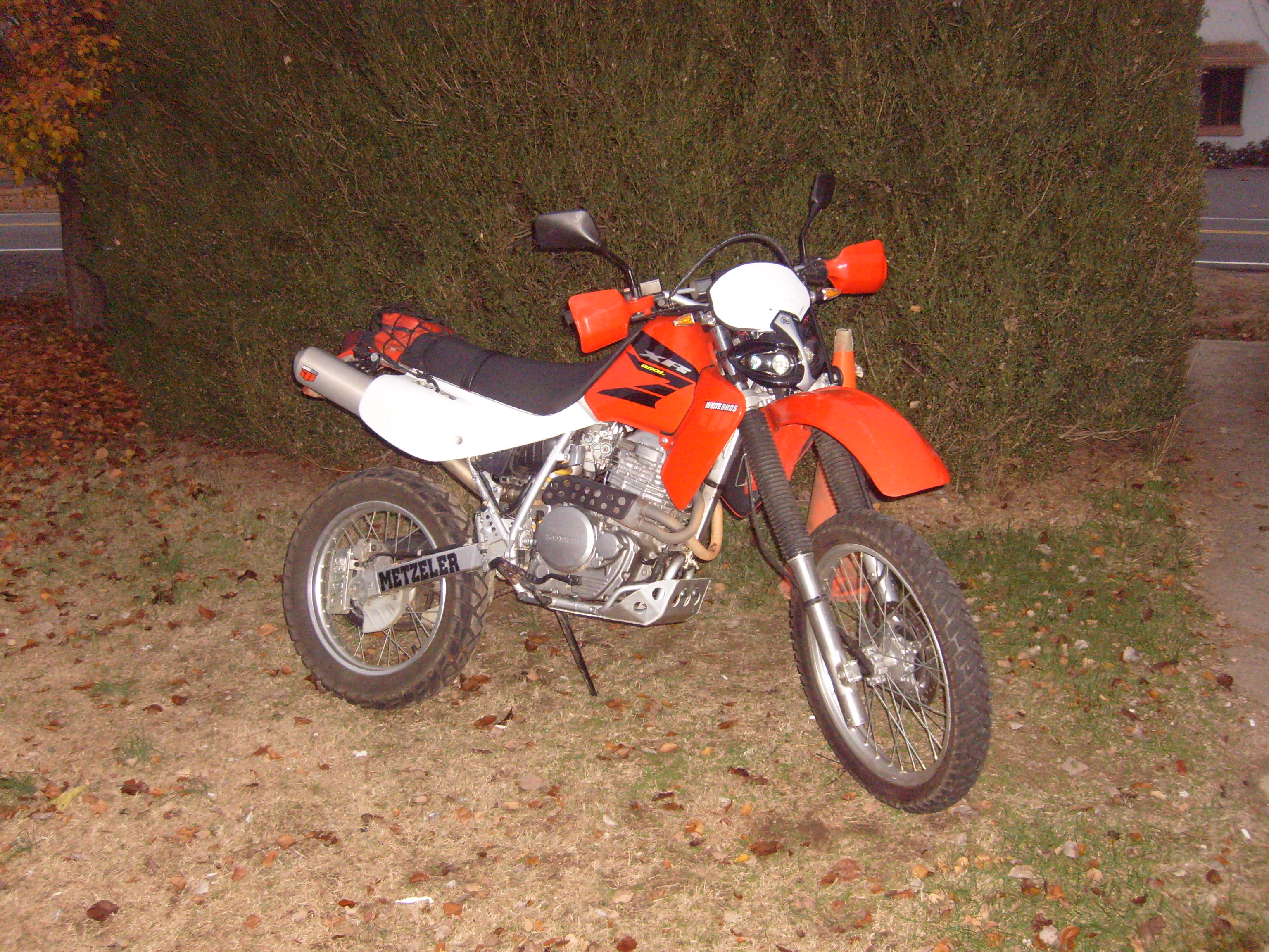 modified XR650L